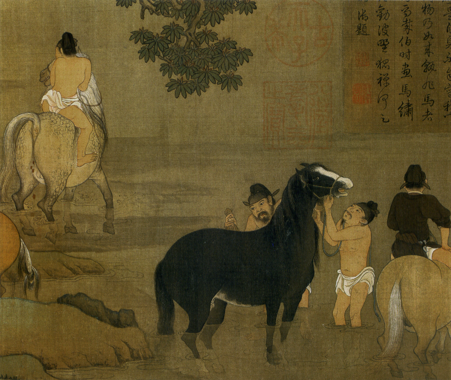 Zhao Mengfu. Bathing Horses. 1312. 28.1 x 155.5 cm. Detail of the scroll. Palace Museum, Beijing.